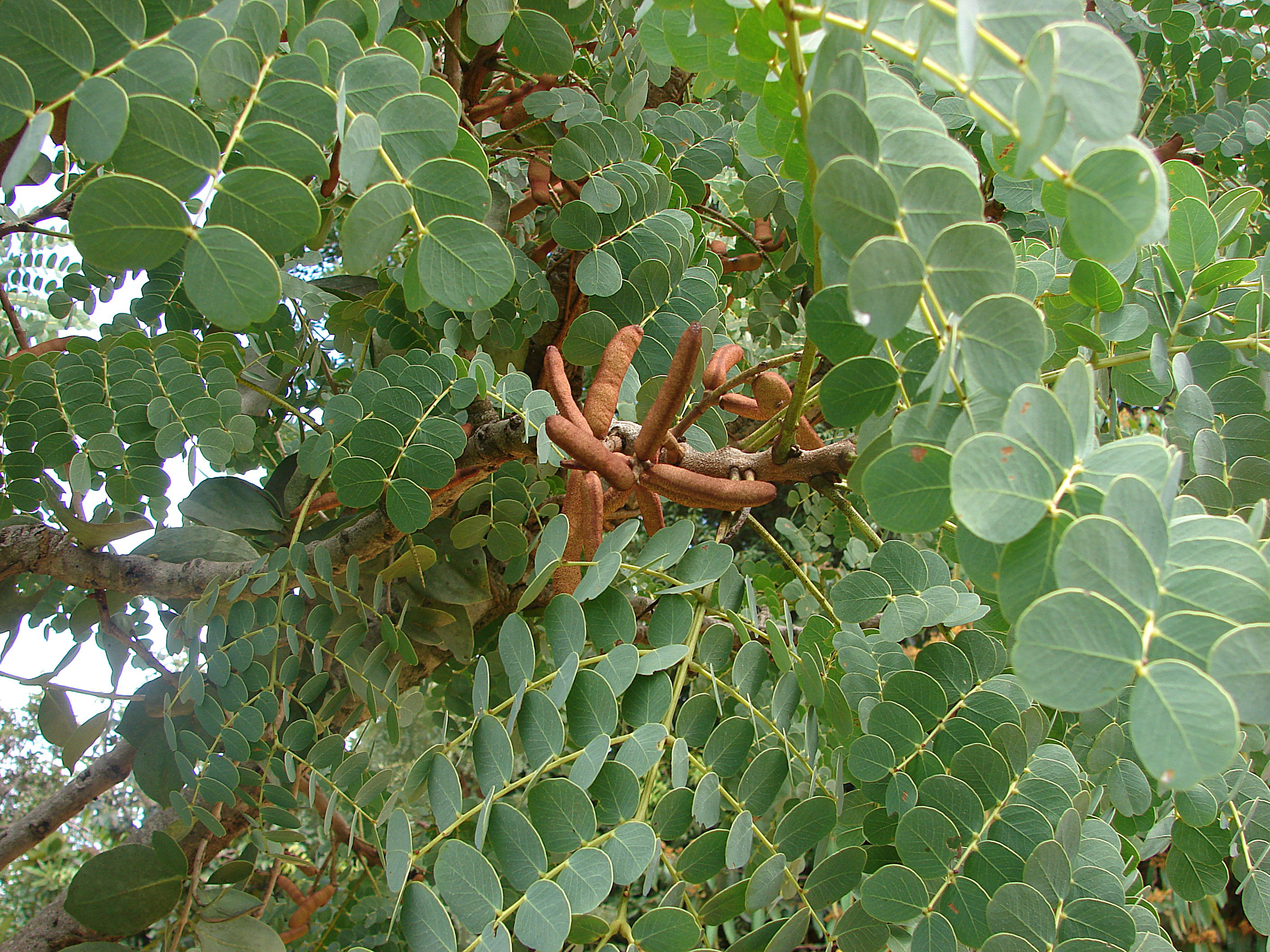 Leaves and fruit of Stryphnodendron_adstringens (barbatimão)